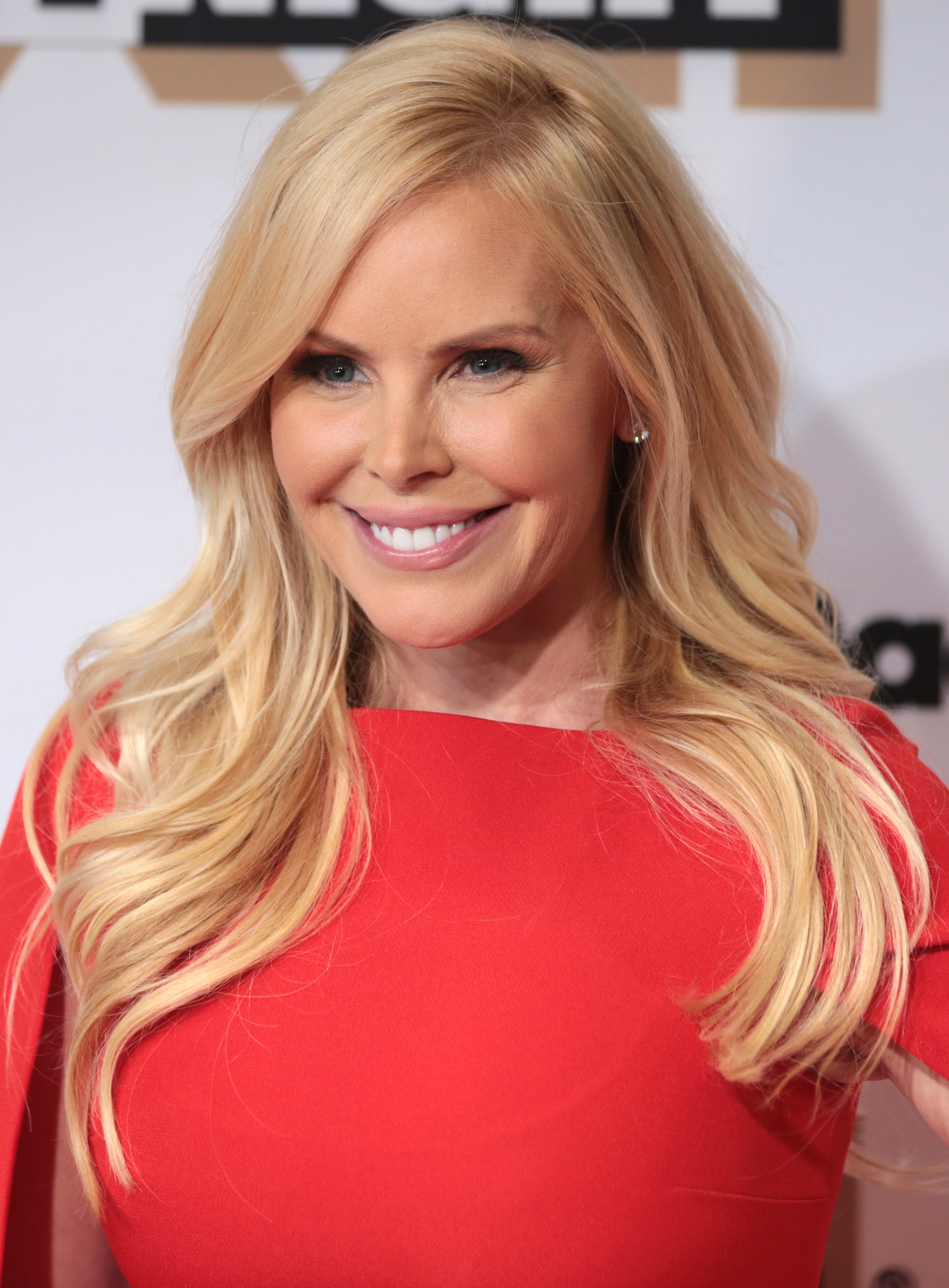 Gena Lee Nolin at Celebrity Fight Night XXIII in Phoenix, Arizona.